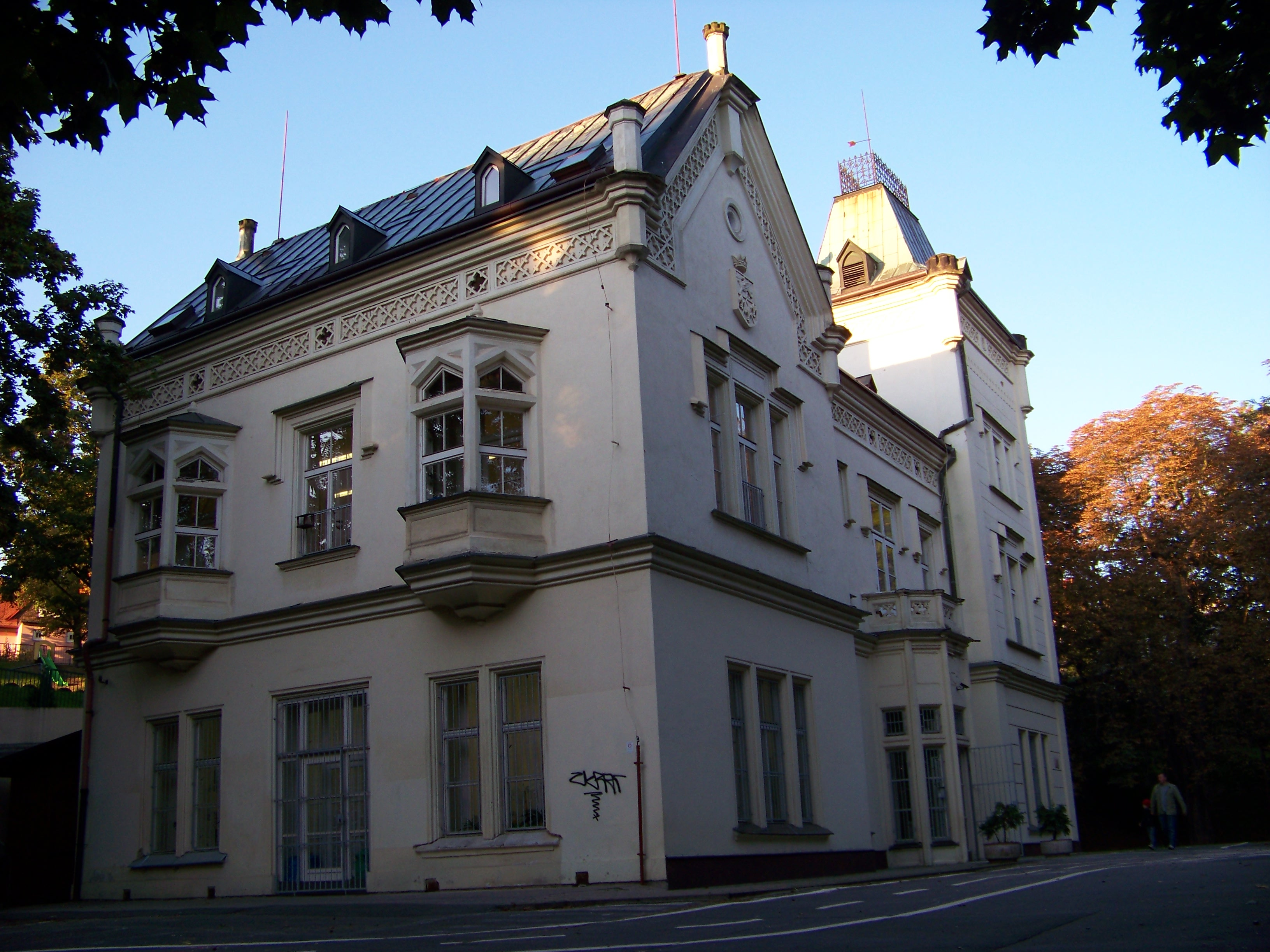 Prague-Smíchov, the Czech Republic. Santoška estate.